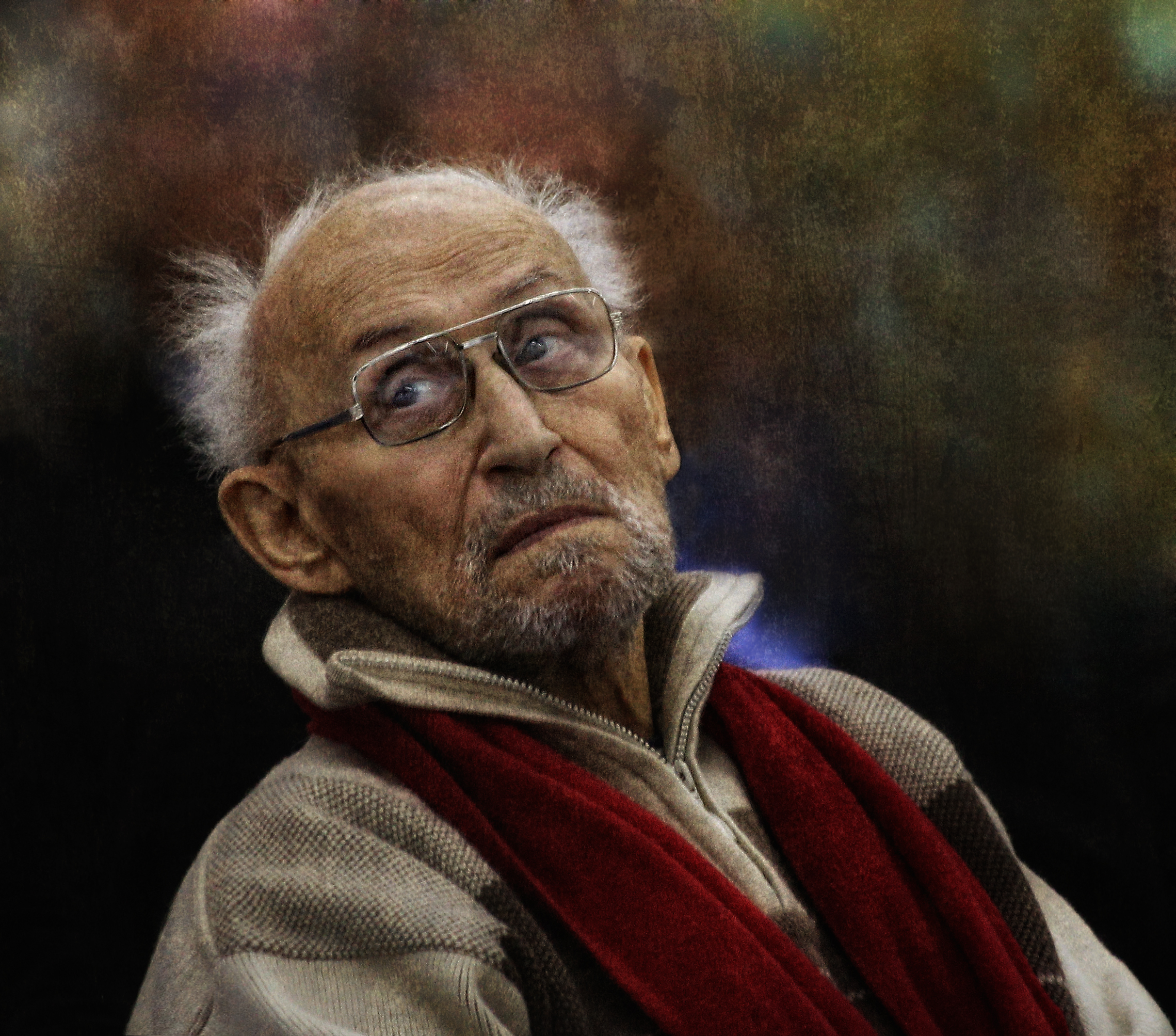 Mai Dantsig, photo by Eugeny Kolchev, 2013